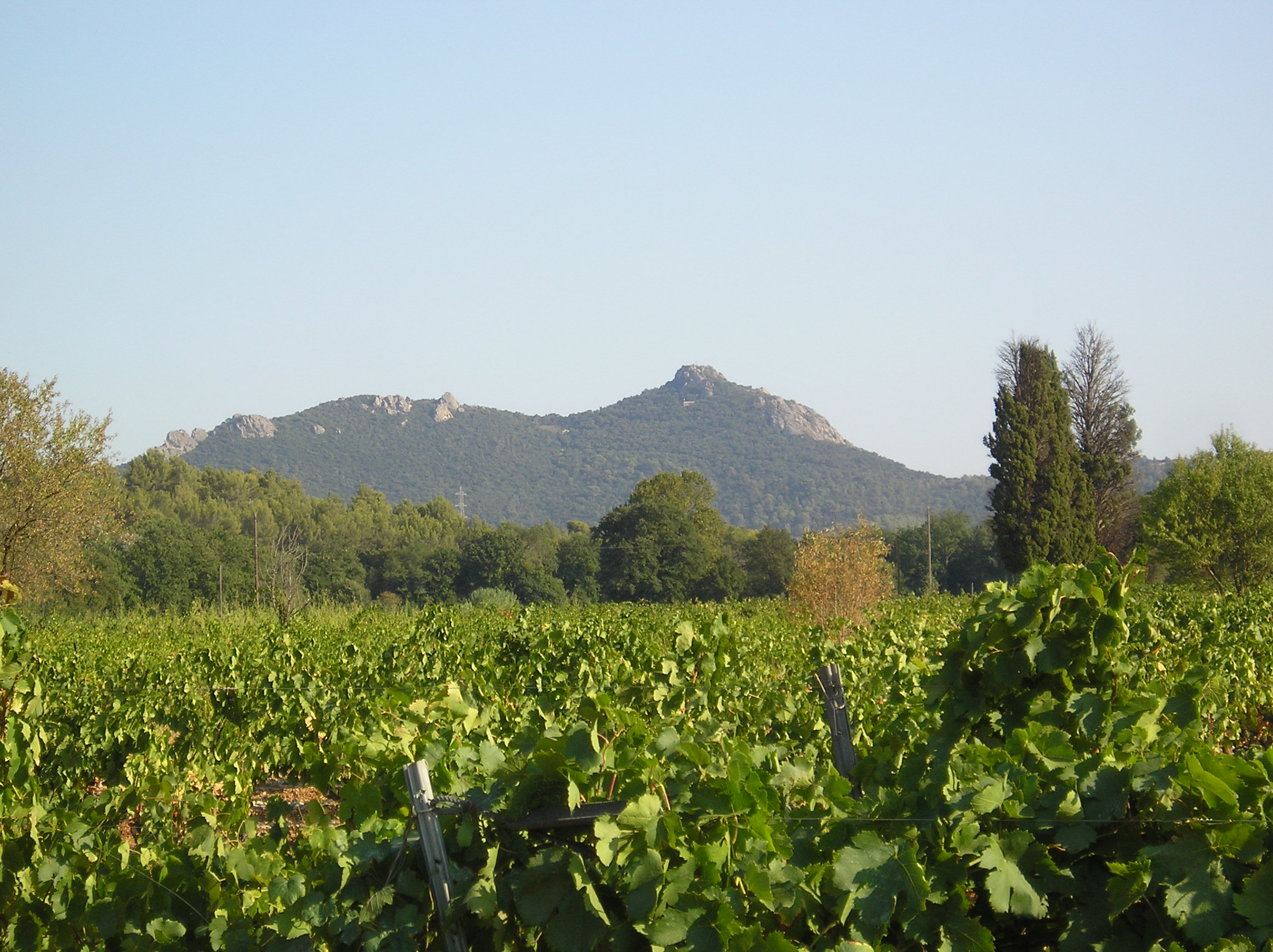 a see of the north side of the Fenouillet hills, in the department of Var, in France. See from the domain of "La Castille", La Crau, Var.